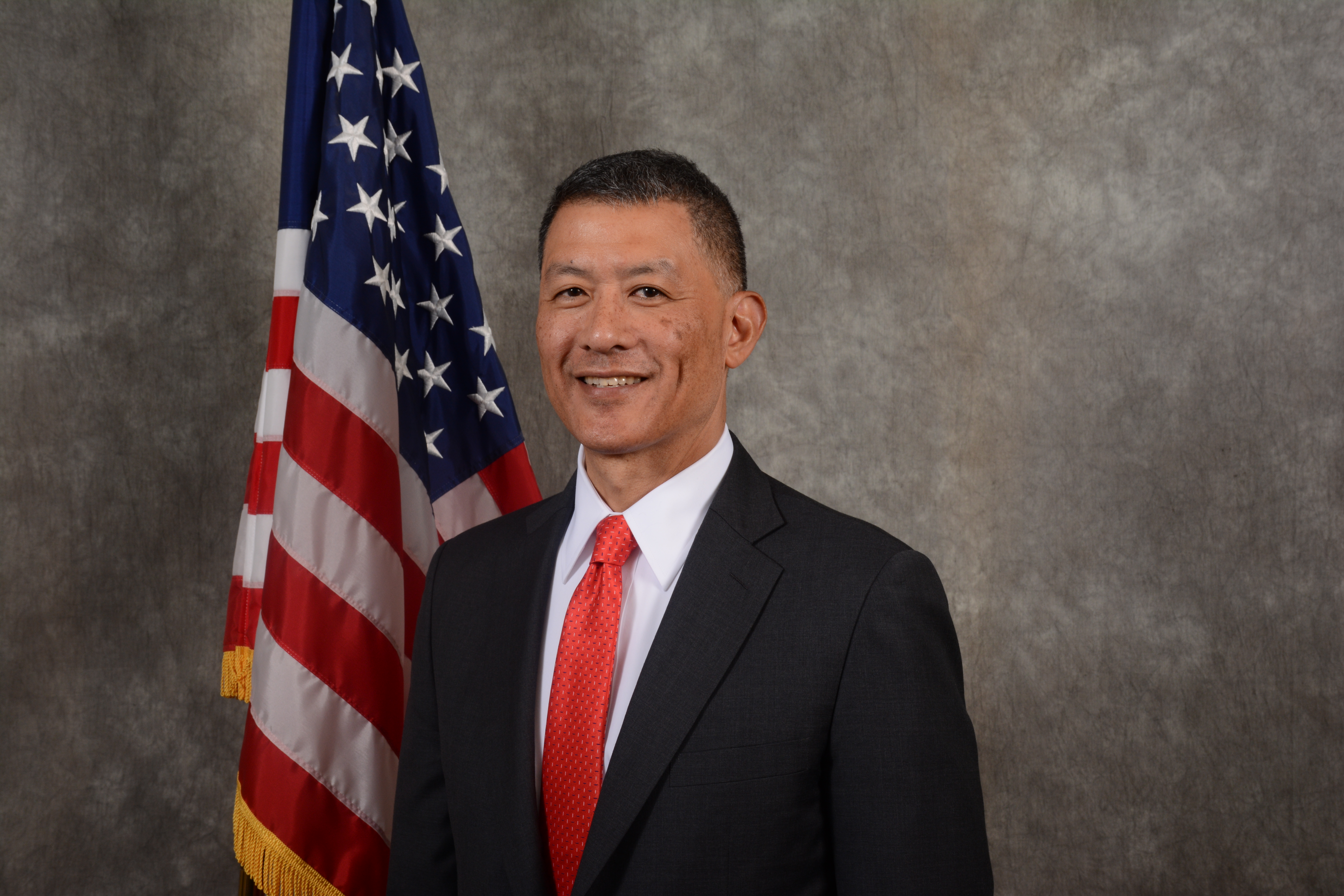 Photo of Dr. Joseph Caravalho, Jr.